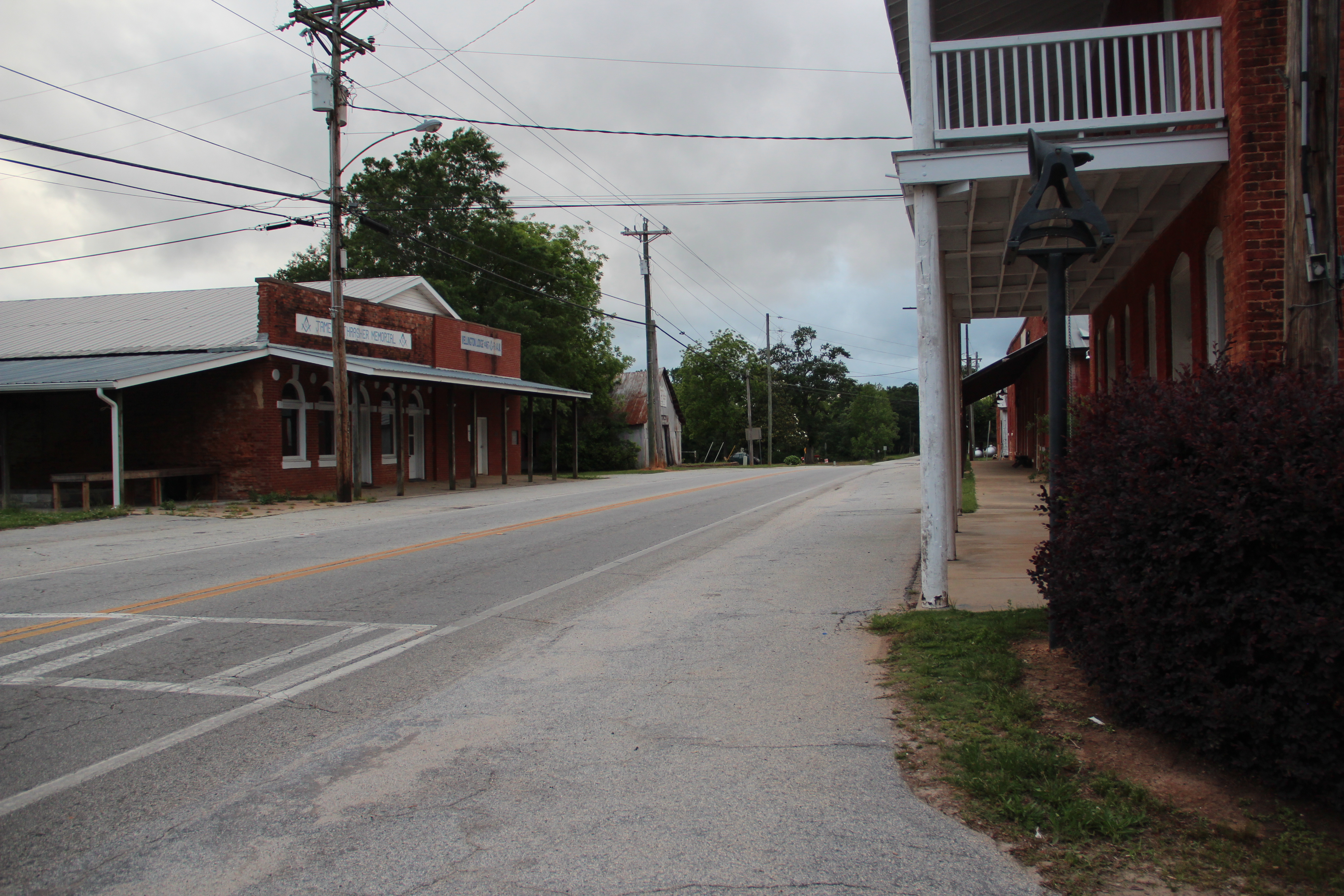 Bostwick Road, Bostwick, GA